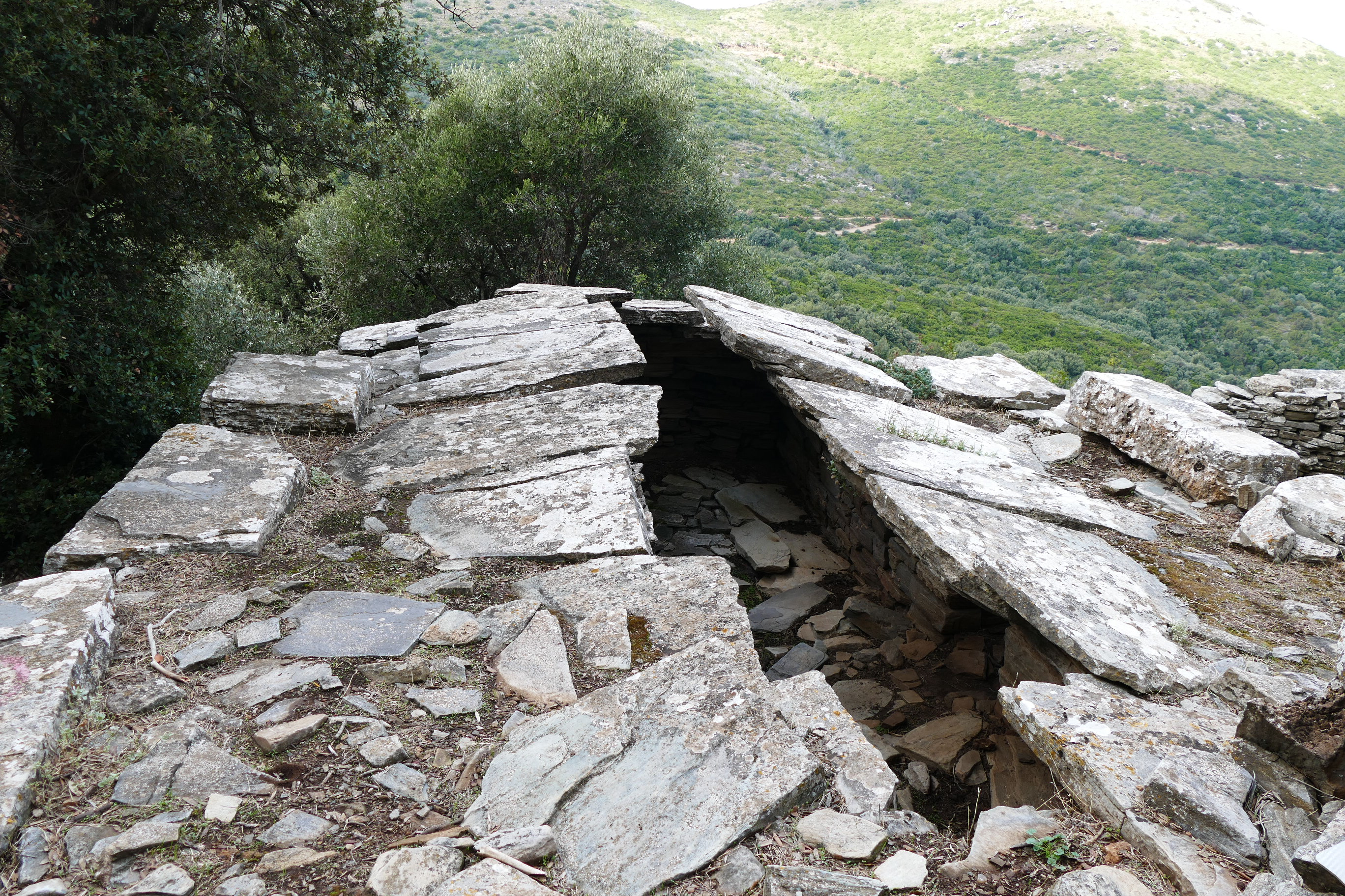 Dragon-House Palli-Lakka building South near Styra/Euboia/Greece